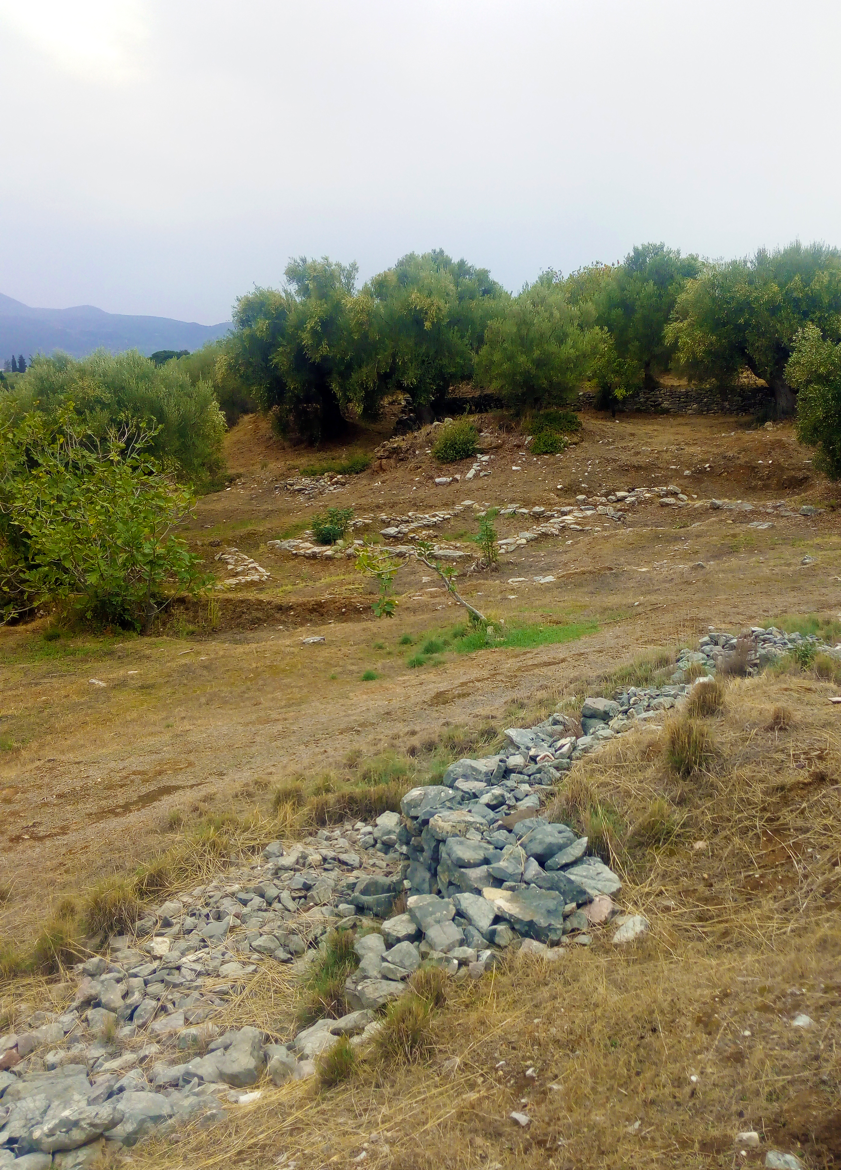 The Mycenaean archaeological site of Nichoria, located in Messinia, Greece.